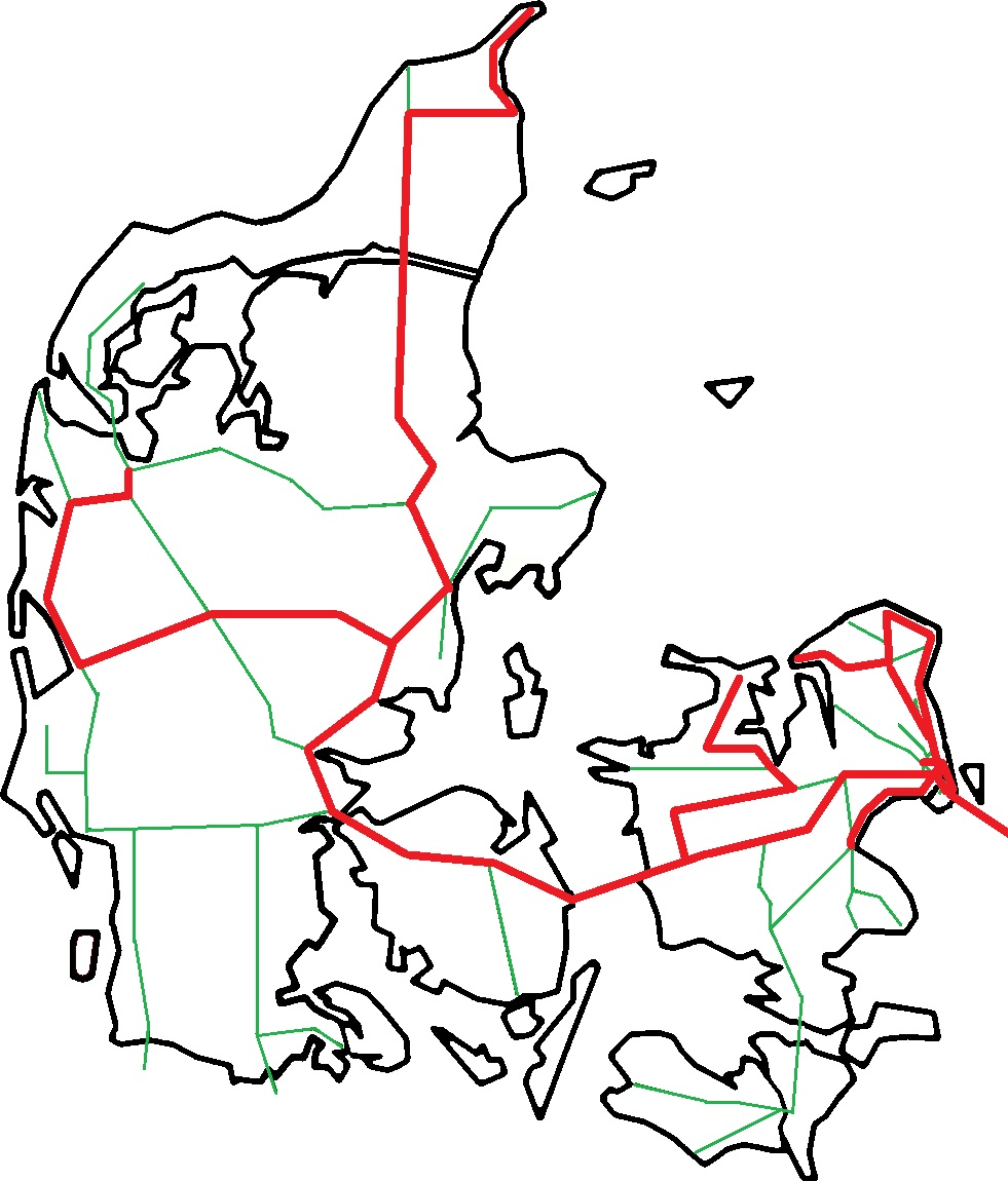 Map of railways in Denmark with lines shown as cabrides on DR HD in december 2011 in red.